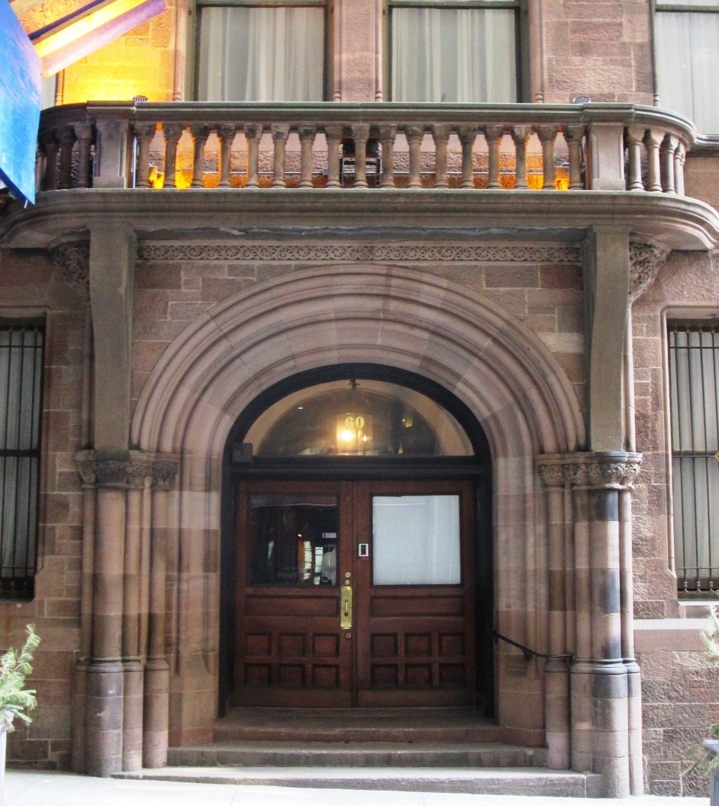 The Down Town Association Building at 60 Pine Street between Pearl and William Streets in the Financial District of Manhattan, New York City was built in 1886-87 and was designed by Charles C. Haight in the Romanesque Revival style, with an eastern addition built in 1910-11 designed by Warren & Wetmore which echoes the design of the original building. The Down Town Association was one of New York's earliest private men's clubs. It was designated a NYC landmark in 1997. (Source: Guide to NYC Landmarks (4th ed.))